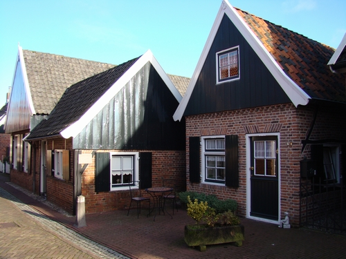 Monumental house at Bredevoort